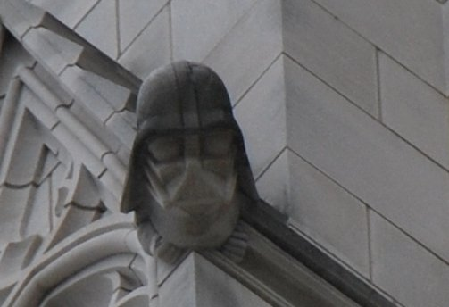 Darth Vader Gargoyle at the Washington National Cathedral, District of Columbia, United States